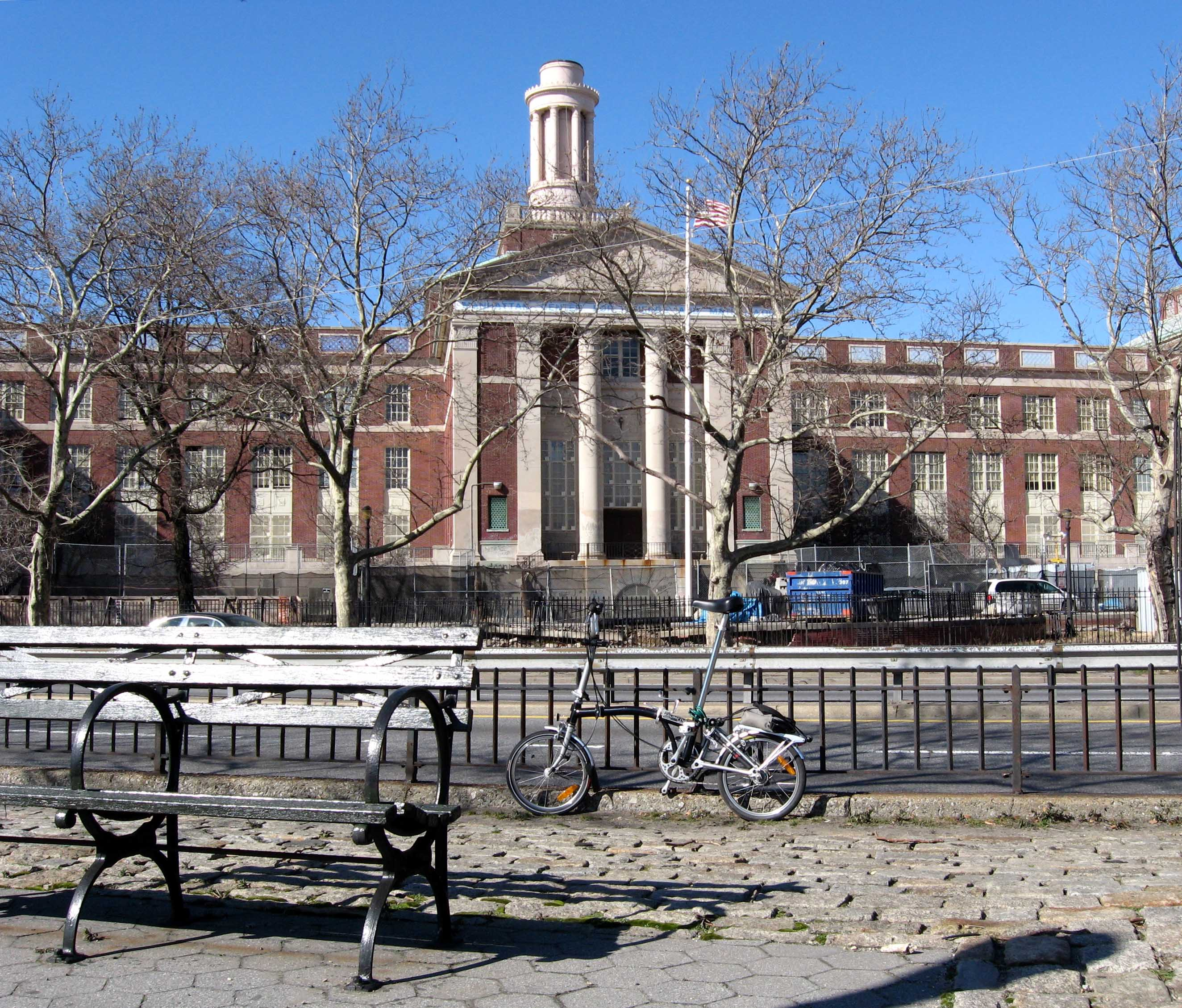 Manhattan Center for Science and Mathematics, eastern face on a chilly sunny February late morning